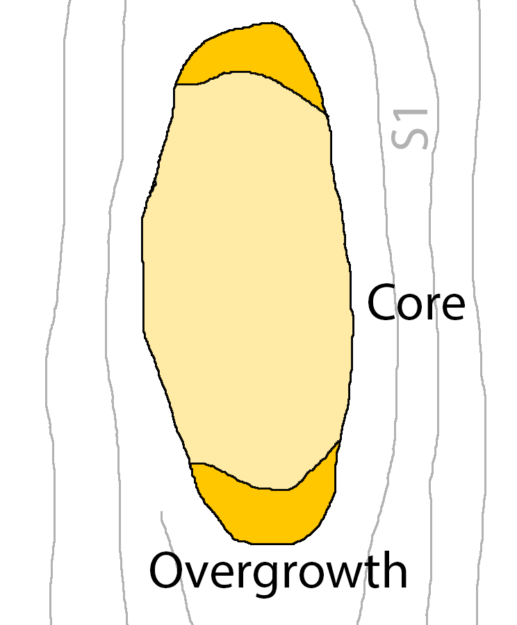 The monazite grain is aligned with foliation S1. New monazite overgrowth grows along S1 direction. Edited after Mccoy, A. M., Karlstrom, K. E., Shaw, C. A., & Williams, M. L. (2005). The Proterozoic ancestry of the Colorado Mineral Belt: 1.4 Ga shear zone system in central Colorado. The Rocky Mountain Region: An Evolving Lithosphere Tectonics, Geochemistry, and Geophysics, 71-90.